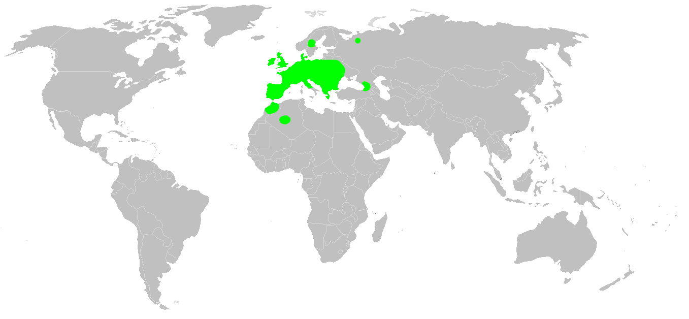 Known world distribution of Atypus affinis, after data from British Arachnological Society, 2006.